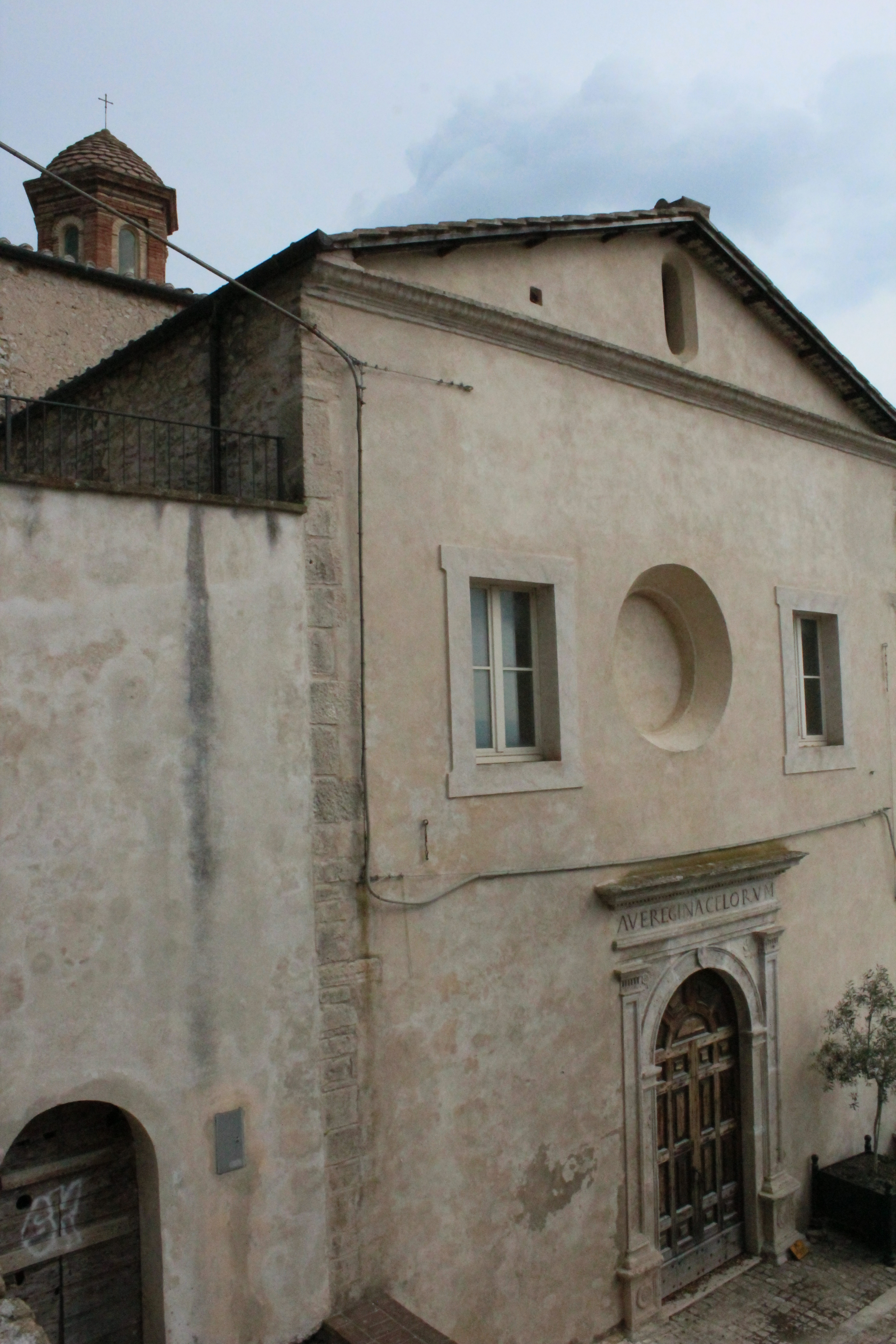 Church Santissima Trinità in Calvi dell’Umbria, Province of Terni, Umbria, Italy